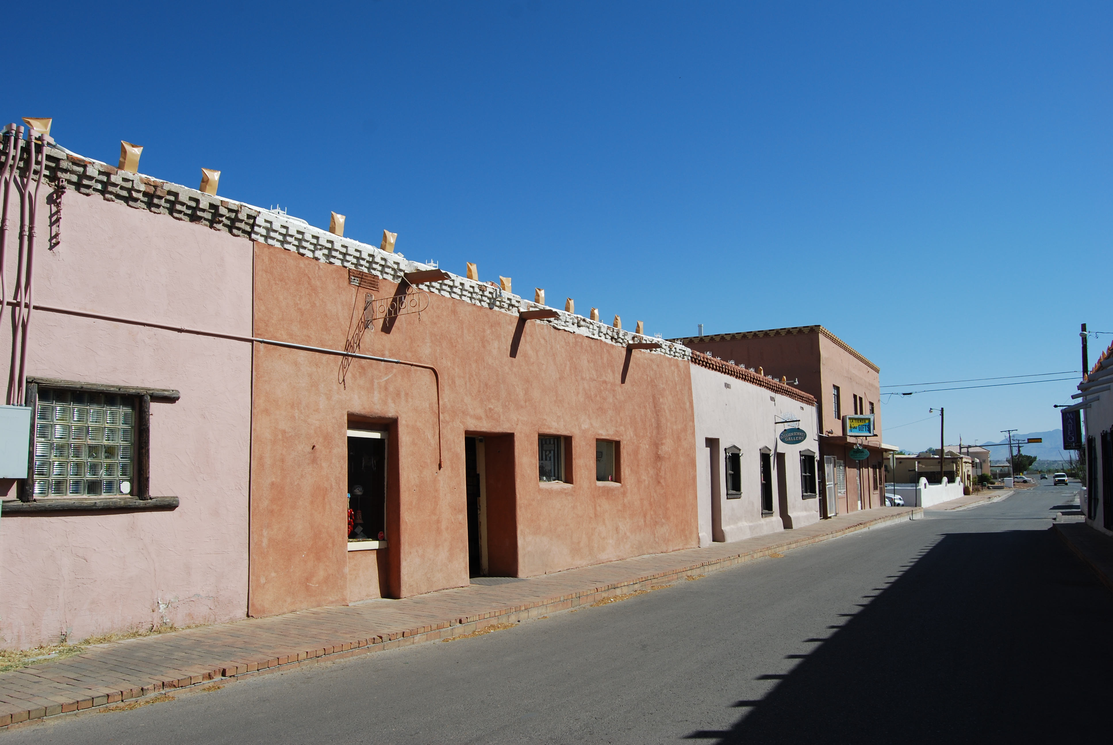 Street scenery in Las Cruces, New Mexico, USA